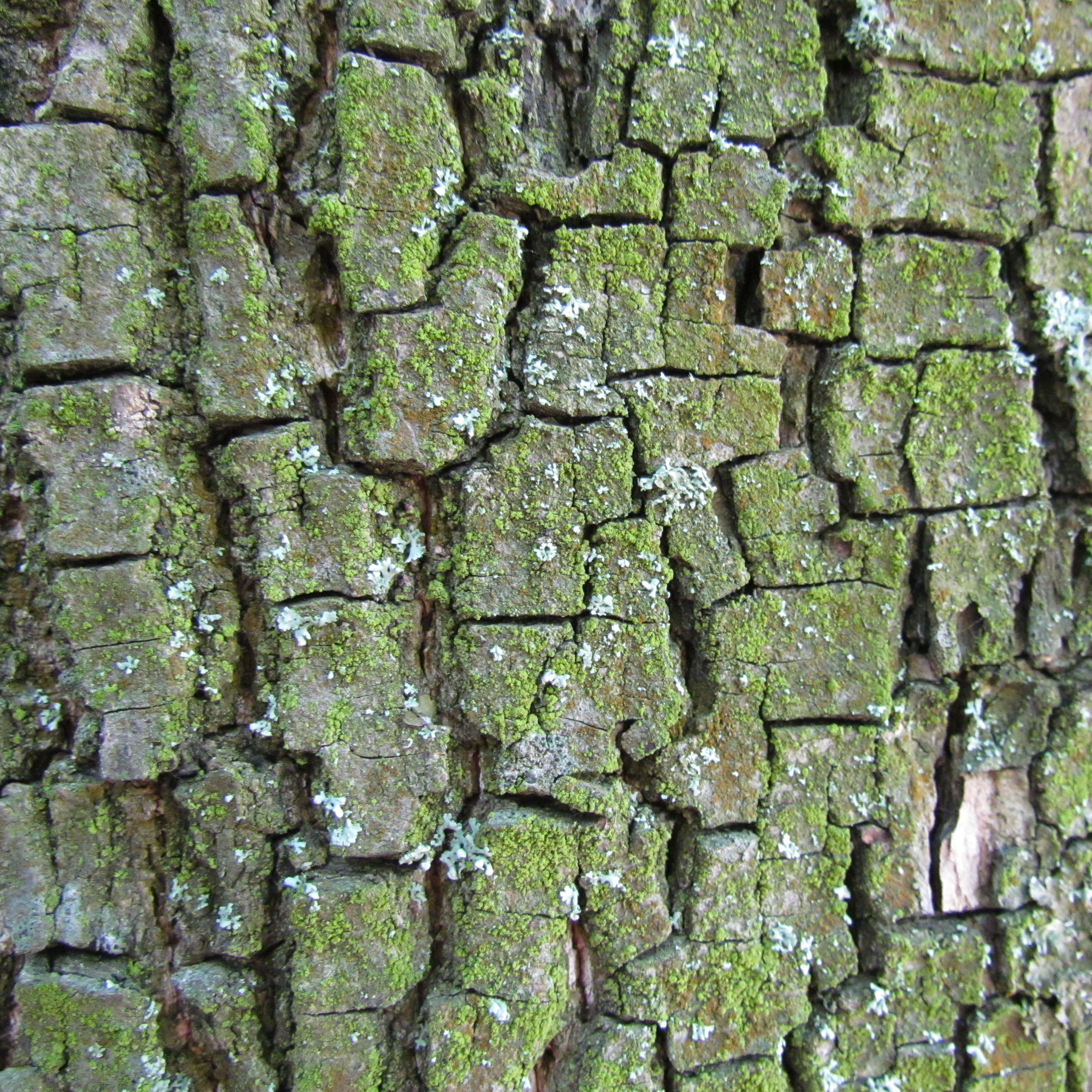 Diospyros lotus bark